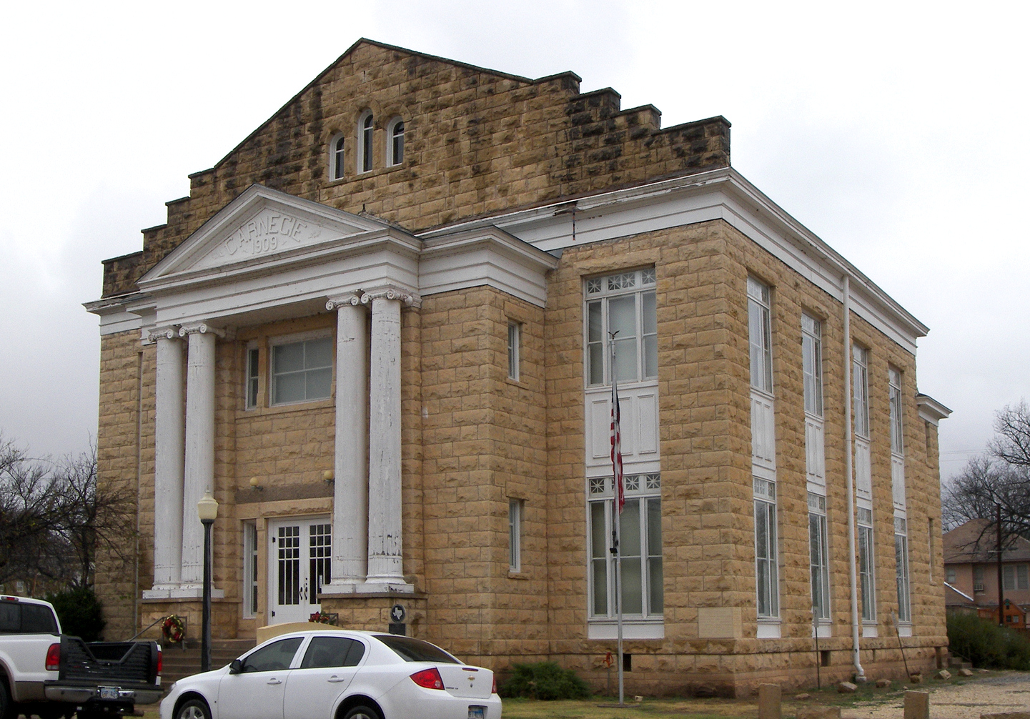 The Ballinger Carnegie Library, 204 N. 8th St, Ballinger, Texas, United States. The limestone library was built in 1909-11 with funds from New York industrialist and philanthropist Andrew Carnegie. The building was listed on the National Register of Historic Places on June 18, 1975 and designated a Recorded Texas Historic Landmark in 1977.